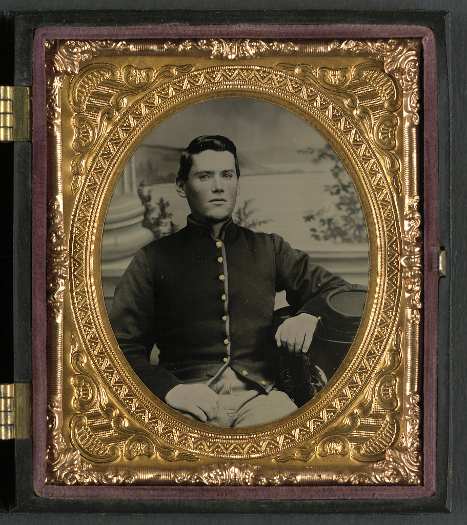 [Private Jonathan Colgrove of Co. F, 57th Pennsylvania Infantry Regiment, in uniform in front of painted backdrop showing column base and landscape] [between 1861 and 1865] 1 photograph : sixth-plate tintype, hand-colored ; 8 x 9 cm (case) Notes: Title devised by Library staff. Case: Berg, no. 1-52. Use digital images. Original served only by appointment because material requires special handling. For more information see: ( Photograph shows identified soldier. Deposit; Tom Liljenquist; 2013; (D067) Purchased from: The Horse Soldier, Gettysburg, Pennsylvania, 2013. Forms part of: Liljenquist Family Collection of Civil War Photographs (Library of Congress). Forms part of: Ambrotype/Tintype photograph filing series (Library of Congress). Subjects: Colgrove, Jonathan,--1844-1912. United States.--Army.--Pennsylvania Infantry Regiment, 57th (1861-1865)--People. Soldiers--Union--1860-1870. Military uniforms--Union--1860-1870. Backdrops--1860-1870. United States--History--Civil War, 1861-1865--Military personnel--Union. Format: Portrait photographs--1860-1870. Tintypes--Hand-colored--1860-1870. Repository: Library of Congress, Prints and Photographs Division, Washington, D.C. 20540 USA, Part Of: Ambrotype/Tintype filing series (Library of Congress) (DLC) 2010650518 Liljenquist Family collection (Library of Congress) (DLC) 2010650519 More information about this collection is available at Higher resolution image is available (Persistent URL): Call Number: AMB/TIN no. 3108